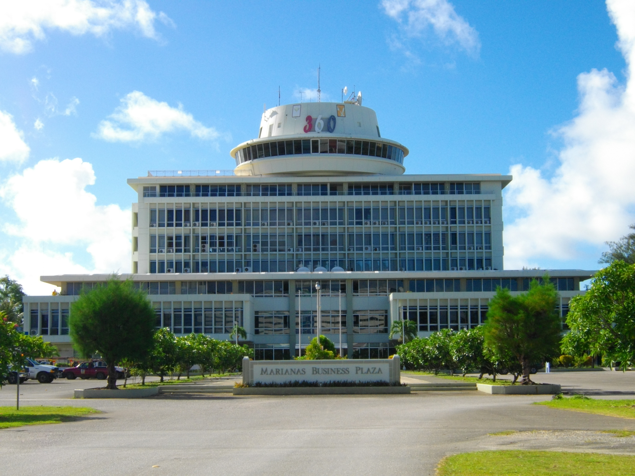 Marianas Business Plaza